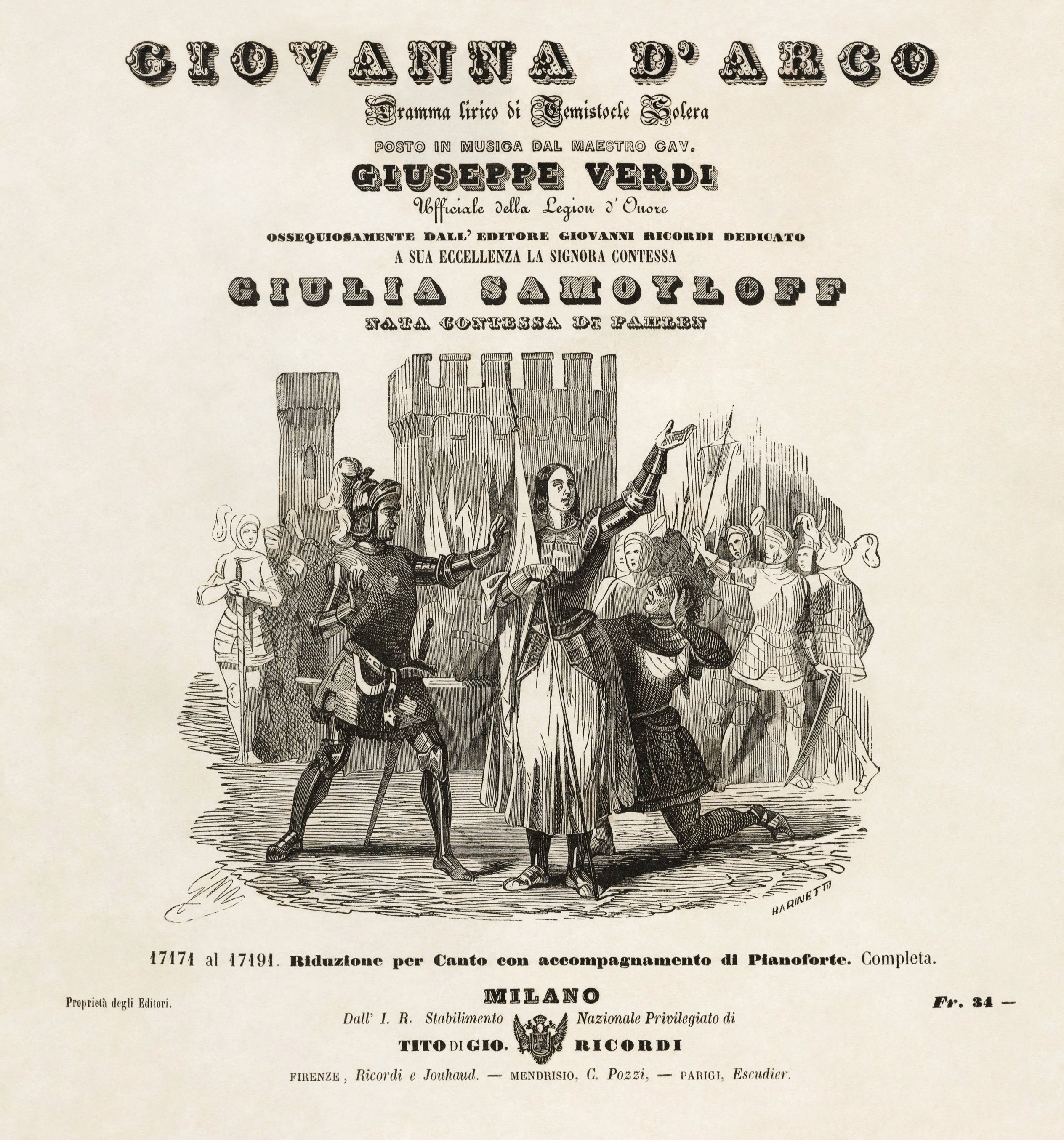 Title page from the variant first edition vocal score of Giuseppe Verdi's Giovanna d'Arco. Restored image: Stains removed, text straightened a bit, rotated, cropped, etc.